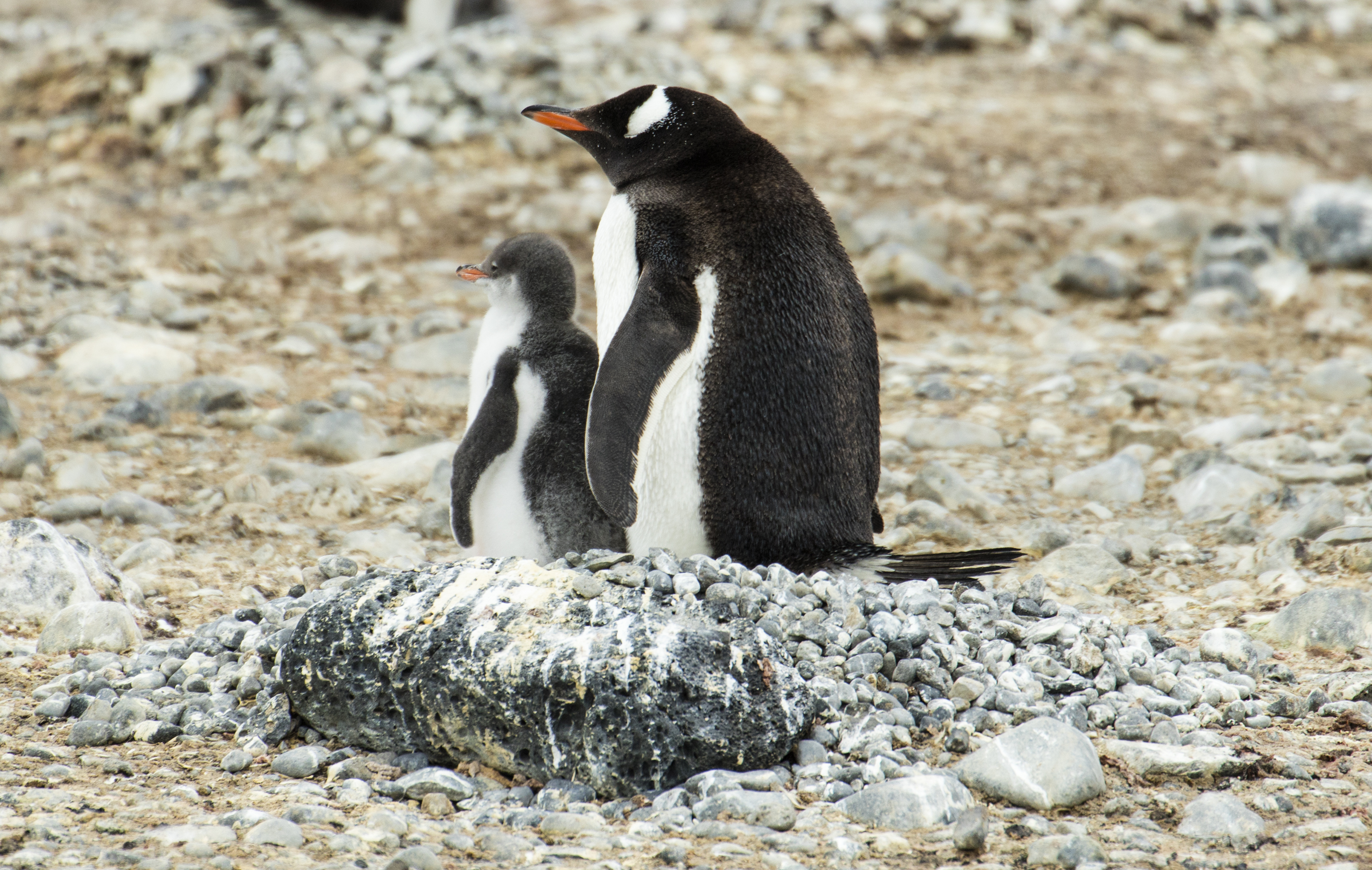 Gentoo penguin (Pygoscelis papua), Brown Bluff, Tabarin Peninsula, Antarctic Peninsula